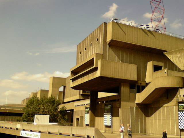 Hayward Gallery Brutalism's not as bad as many believe, or does a bit of sunshine just make anything look good?